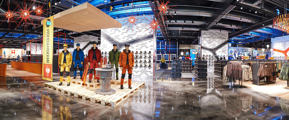 Indoor view engelbert strauss flagship store - workwearstore®